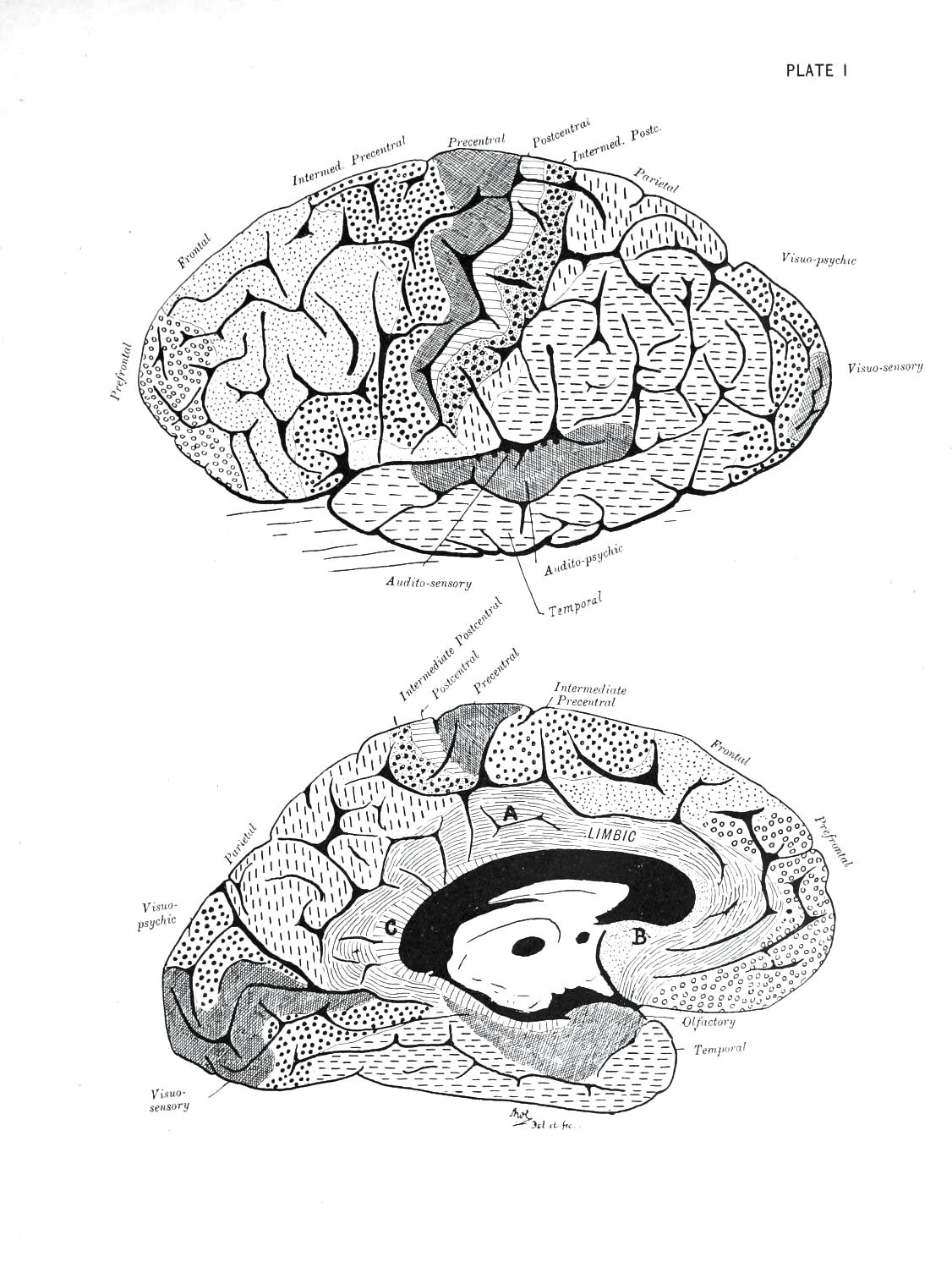 Histological studies on the localisation of cerebral function. Cambridge: University Press, 1905, plate 1